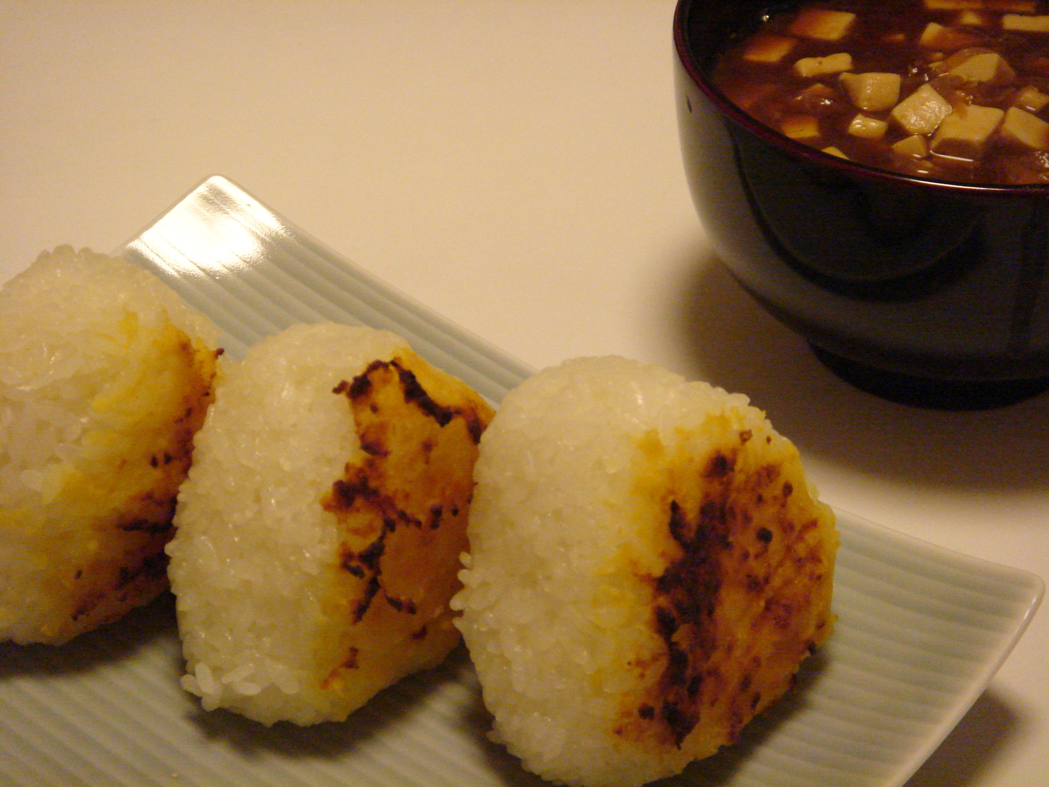 Miso-Onigiri and Miso Soup